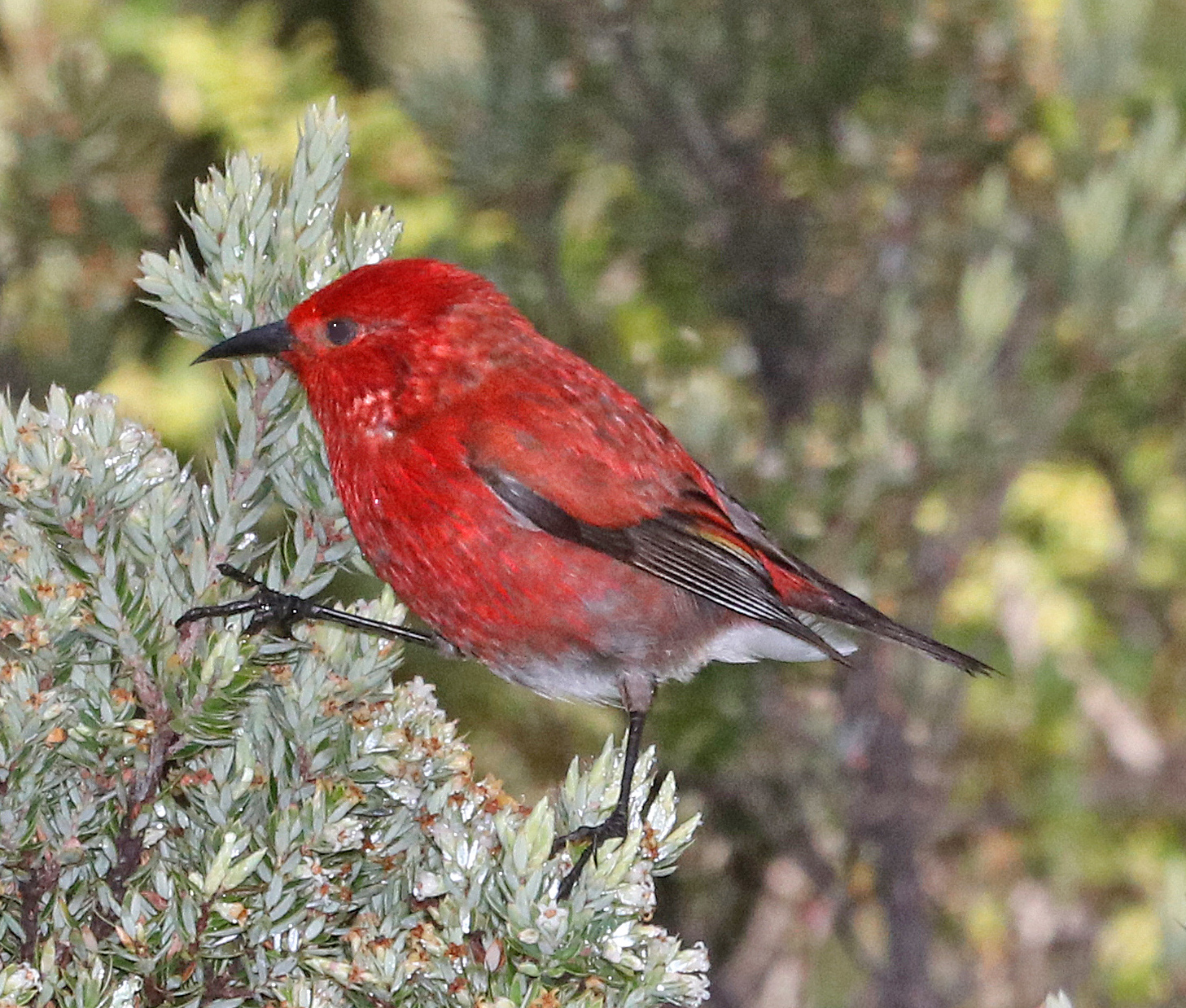 APAPANE (5-5-2018) hosmer grove, haleakala nat park, maui co, hawaii -07